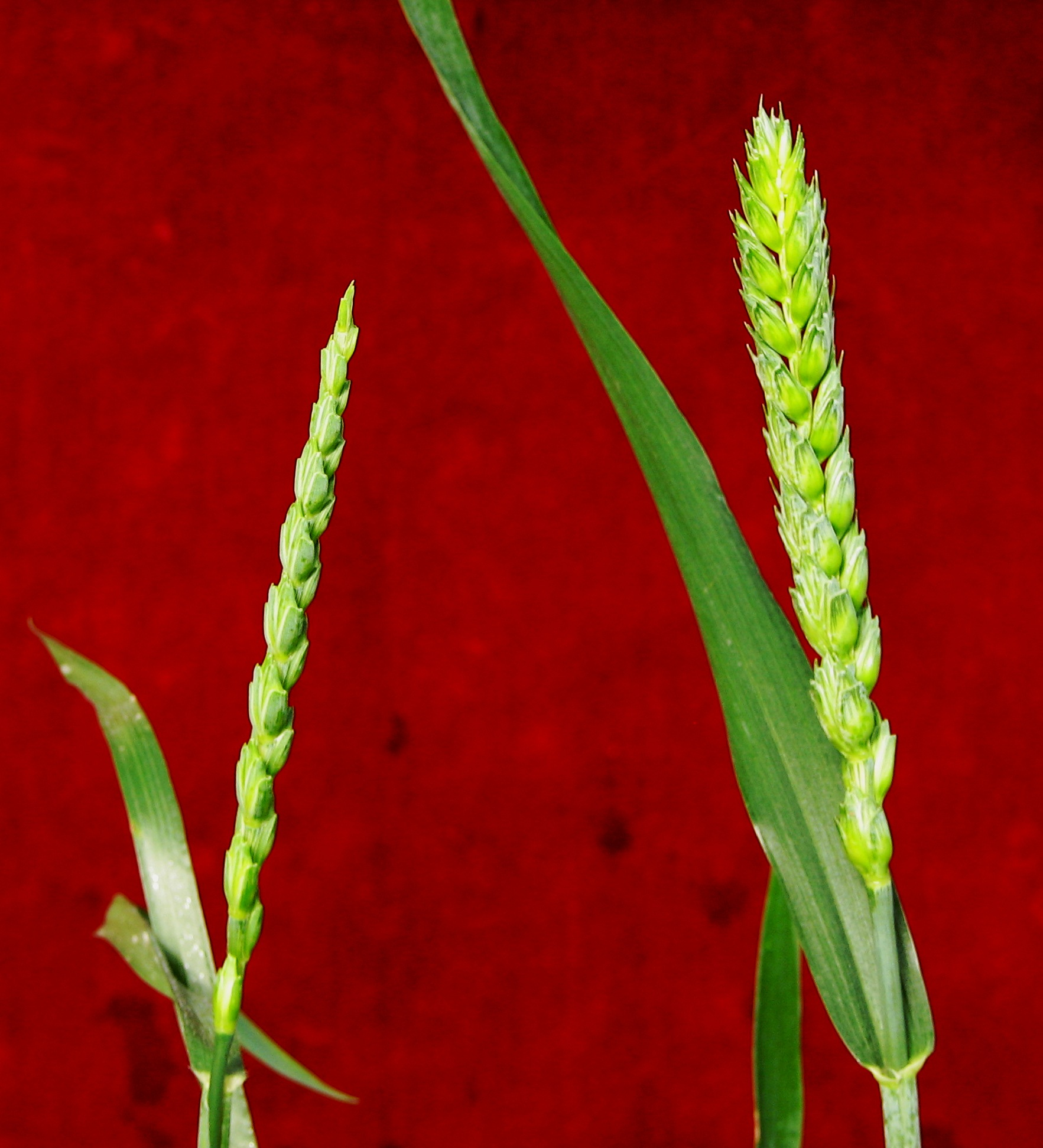 Heads of two plants derived from hybridizing wheat with Thinopyrum intermedium. These F2 plants came from the same cross, but the plant on the right has fewer stems and larger heads.